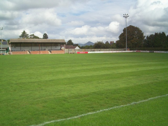 Maes-y-Dre Recreation Ground The home of Welshpool Town. The ground has been, controversially, accepted into the Welsh Premier League despite not meeting current regulations due to sharing the recreation ground with a cricket pitch. The roof and chimneys of the old Welshpool station can be seen near the corner of the pitch.